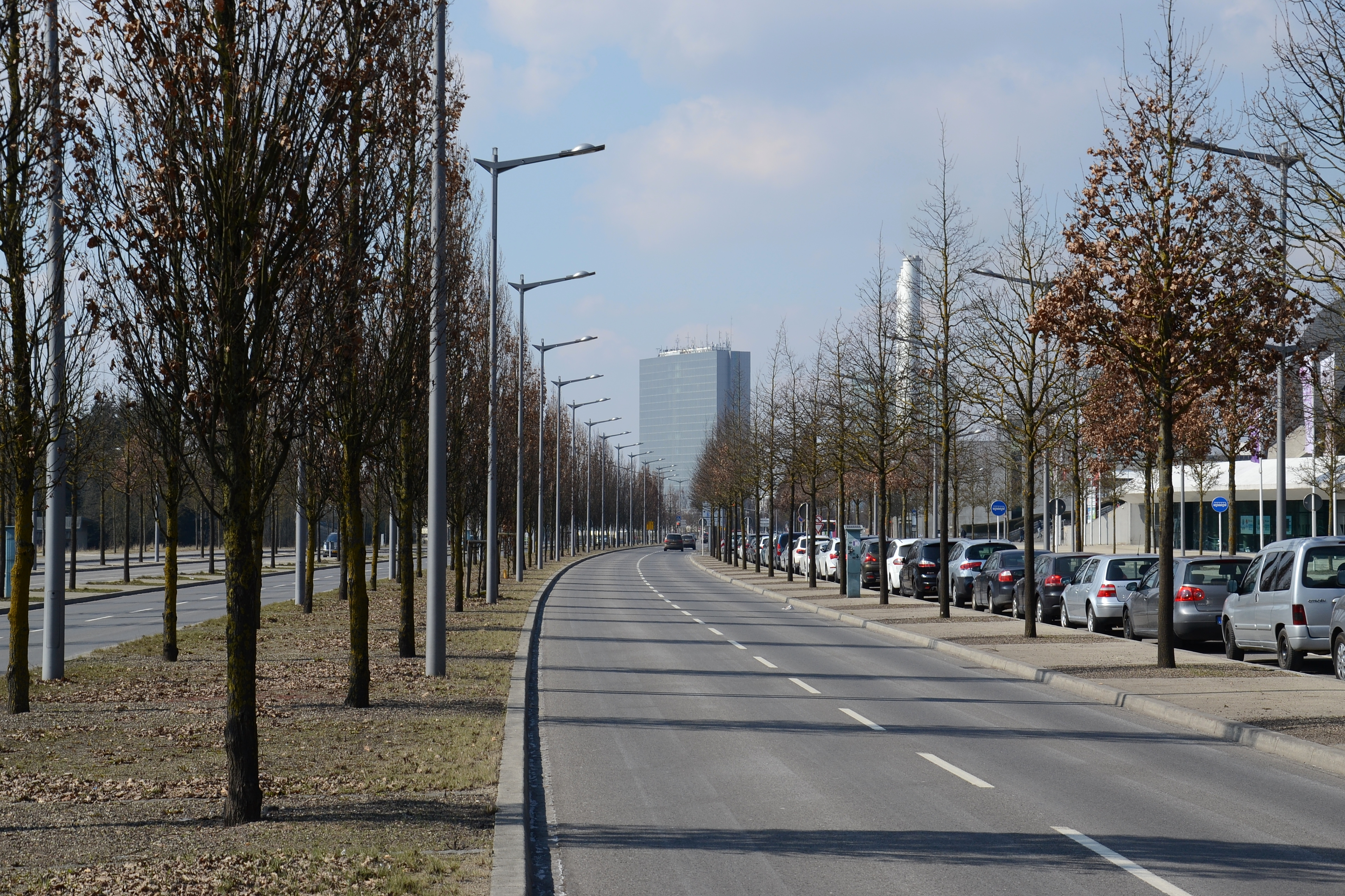 Luxembourg City - Avenue John F. Kennedy